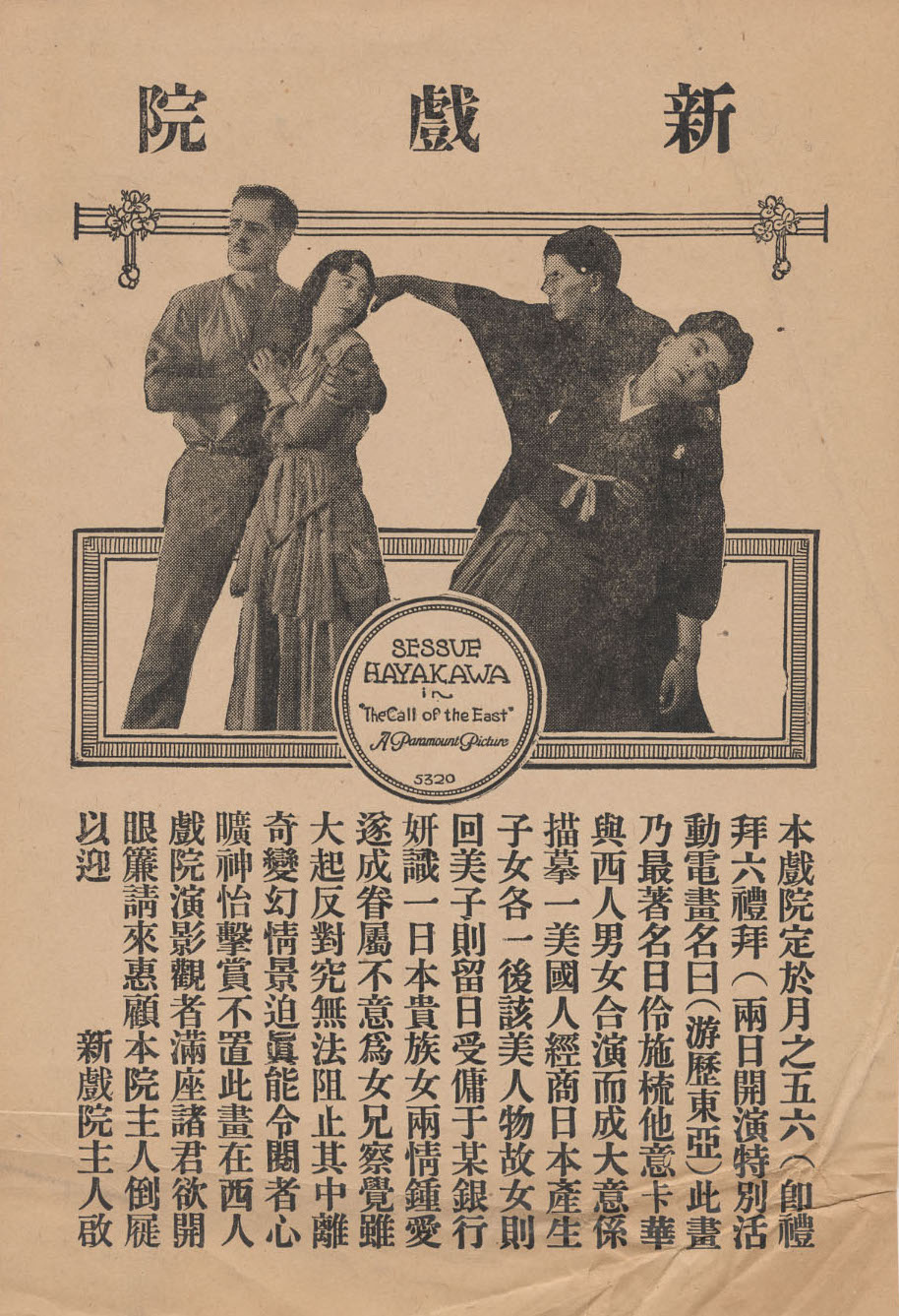 Film adverstisement with Sessue Hayakawa in The Call of the East (1917)